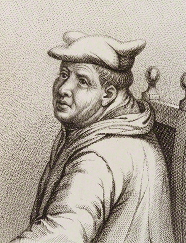 Edmund Bonner (c1500-1569)